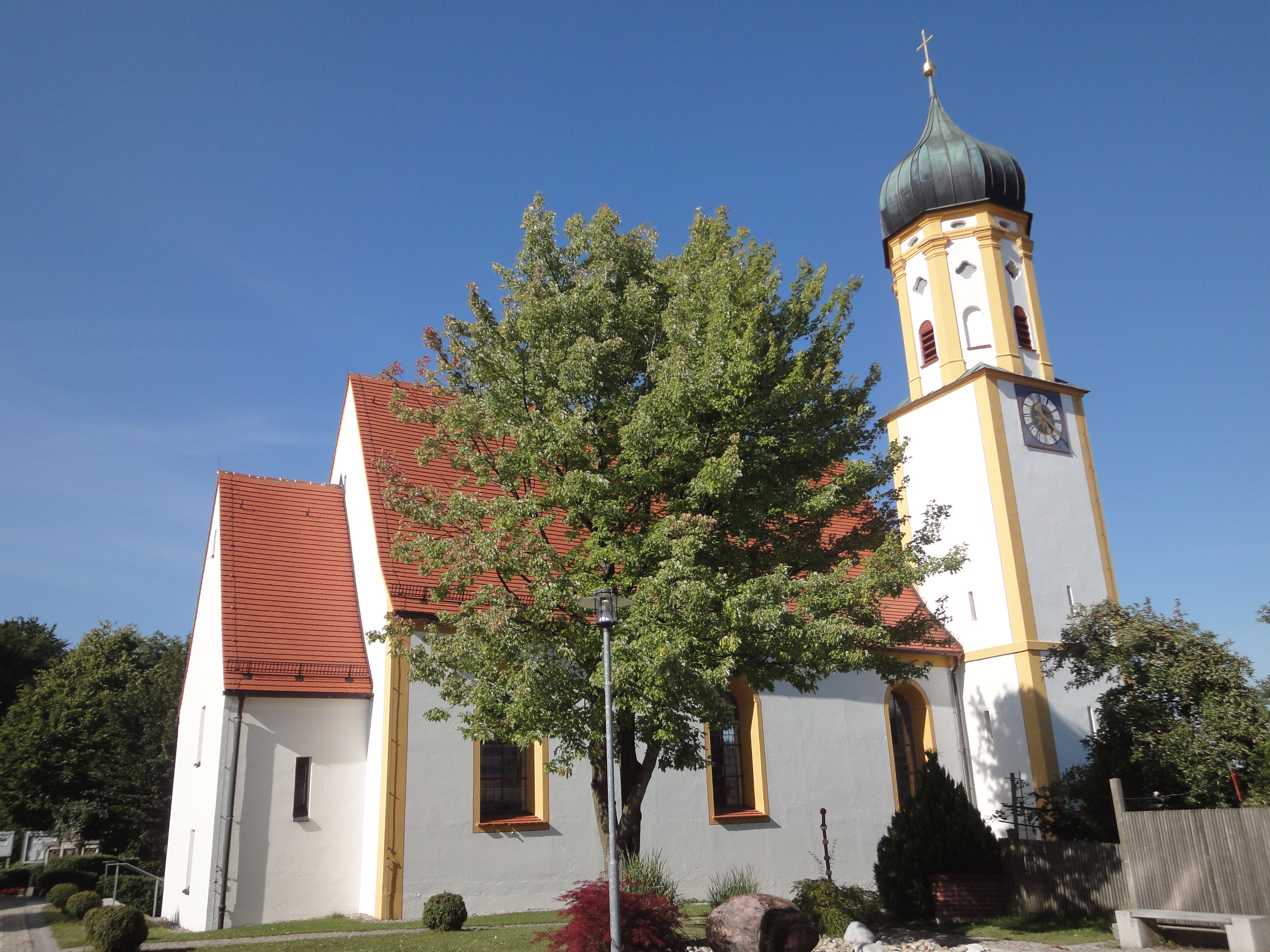 church in Langweid-Achsheim